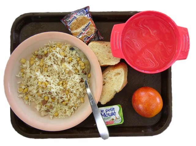 Meal in Taizé with the new cup